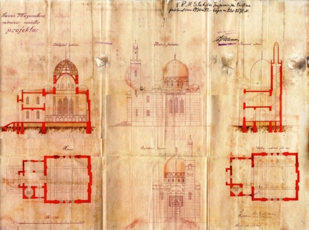 The new project of Kaunas Mosque took place in 1930